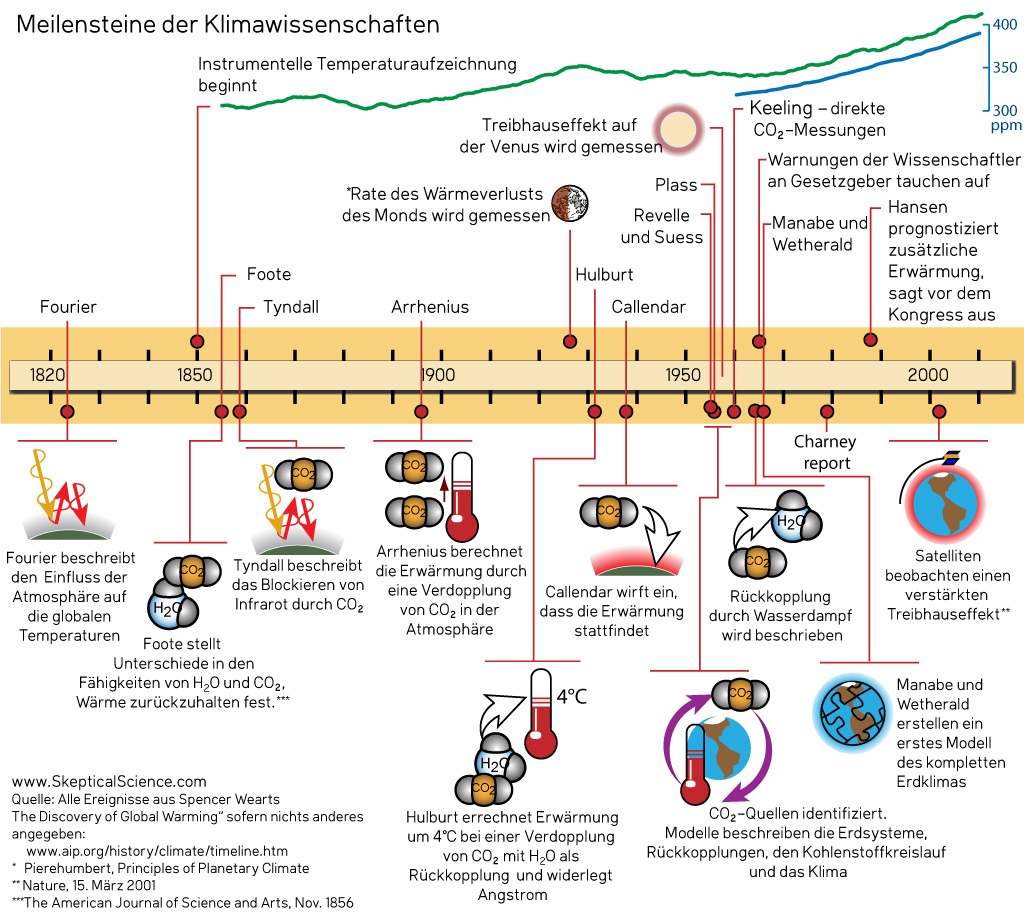 two hundred years of climate change history